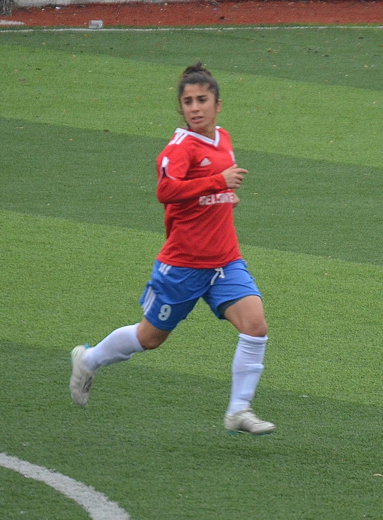 Emine Gümüş for Adana İdmanyurduspor in the 2014-15 season